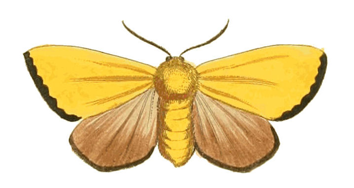 Extract from Plate XI. ODONESTIS? SERVULA (= Antheua servula).